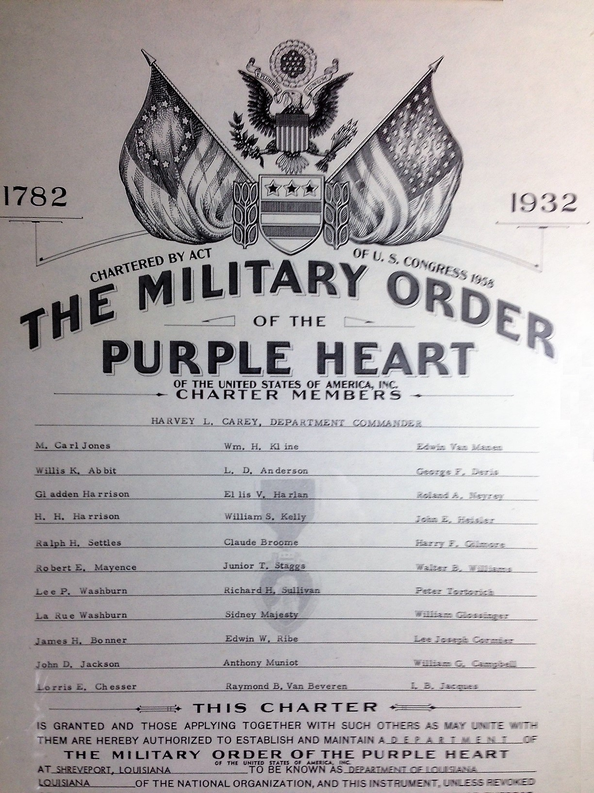 Copy of a certificate of the congressionally-chartered Military Order of the Purple Heart; too simple to be copyrighted ; unclear if it is printed by the U.S. Government but has the government seal.